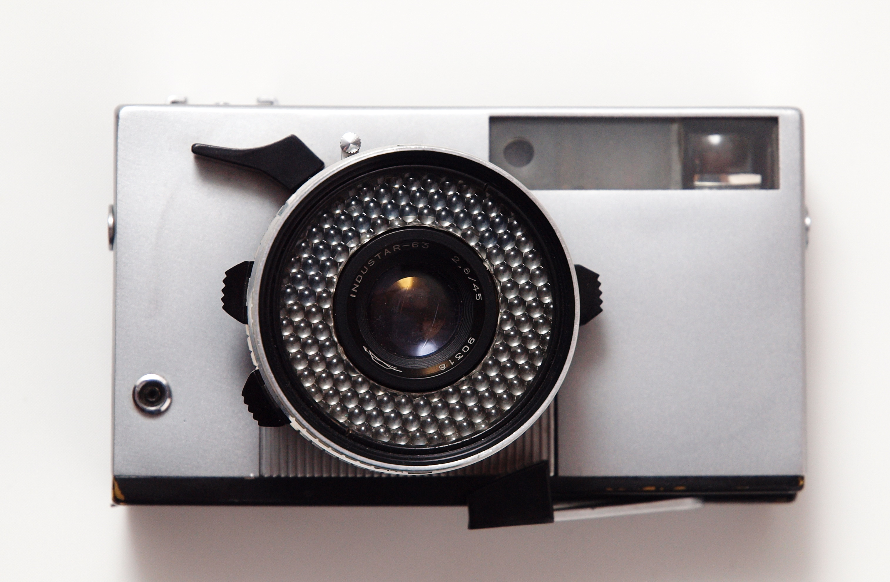 Zorki 10